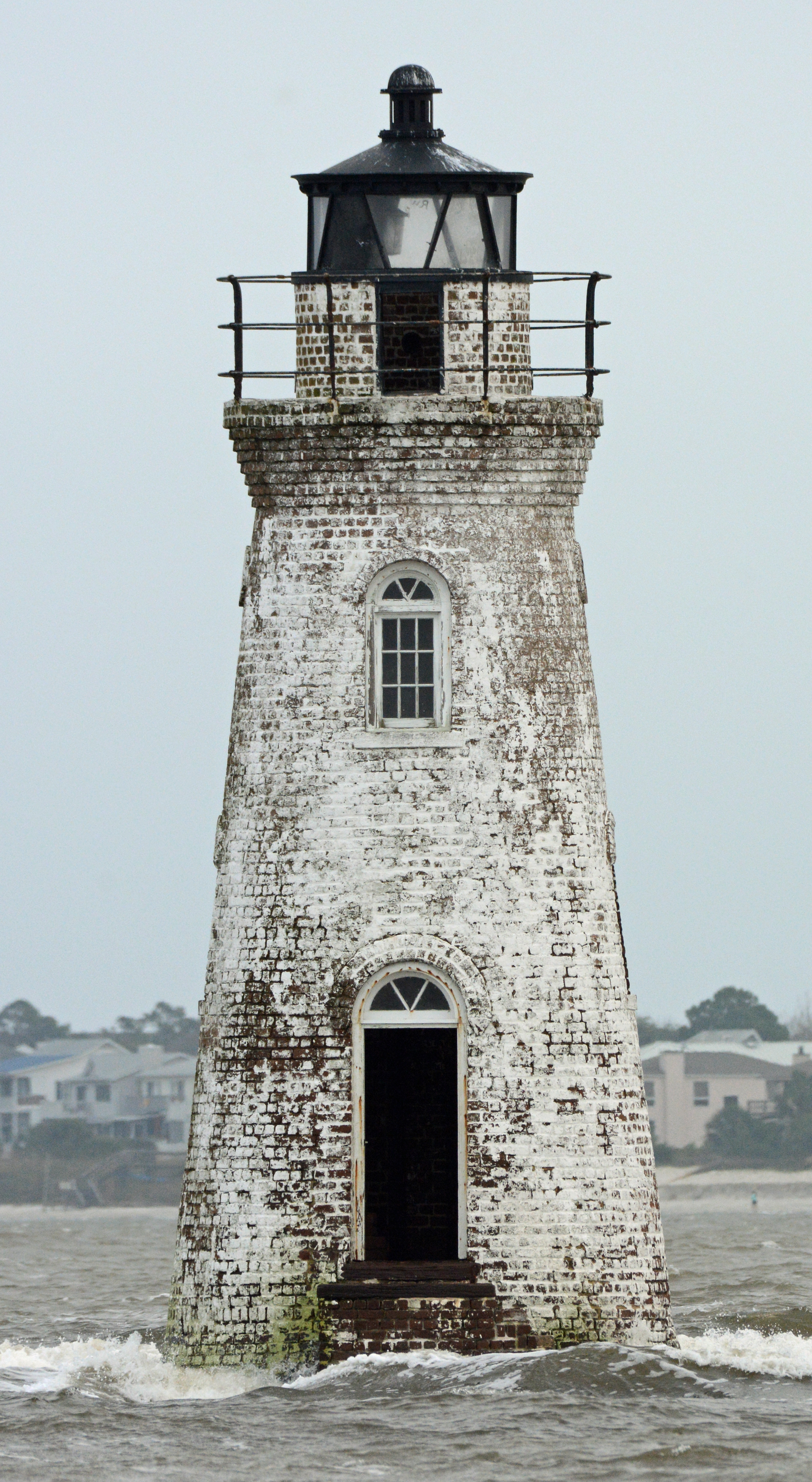 Cockspur Island Light, in the Fort Pulaski National Memorial in Chatham County, Georgia, US